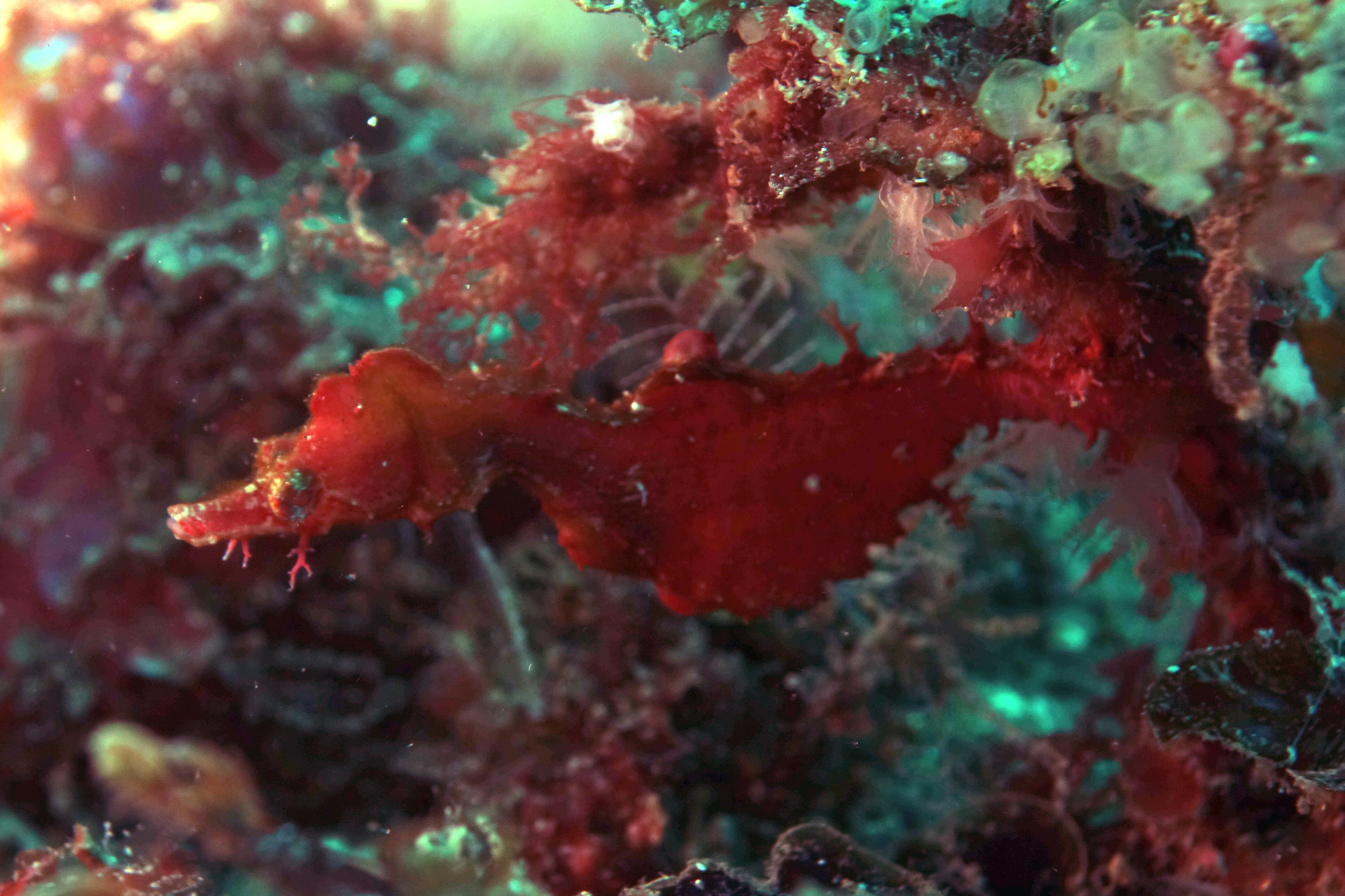 about 5cm, at Bass Pint, Shellharbour.